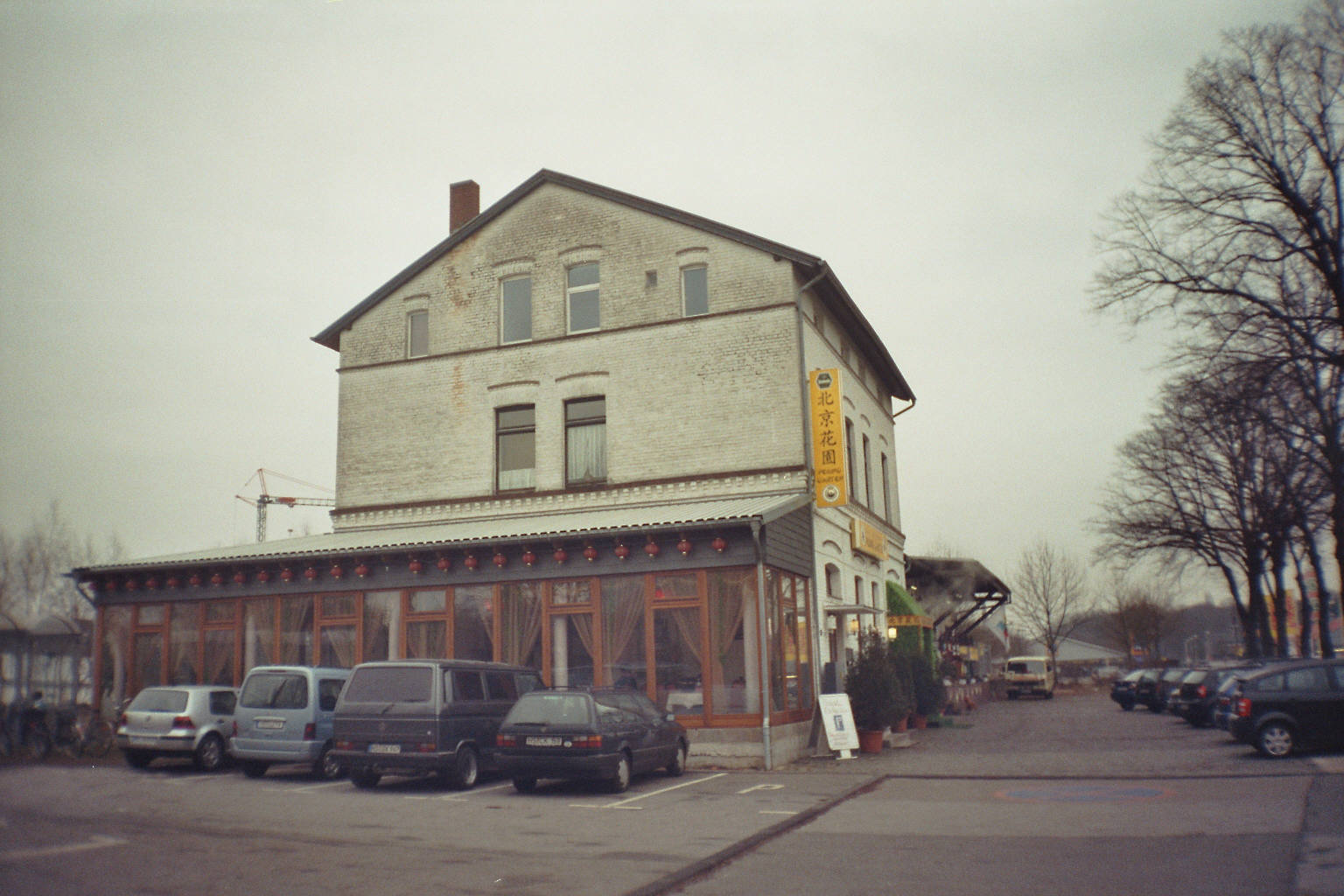 Wegberg Bf